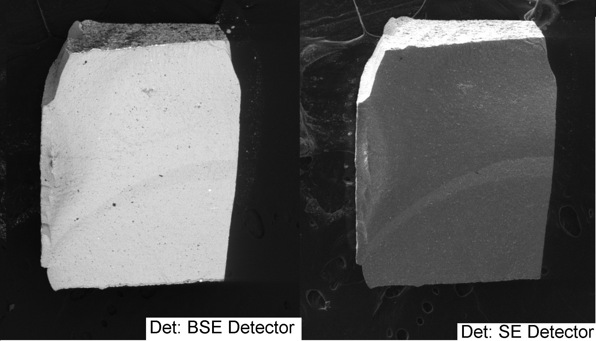 SEM images of a pellet of completely-dense synthetic CaTh(PO4)2 obtained by SPS